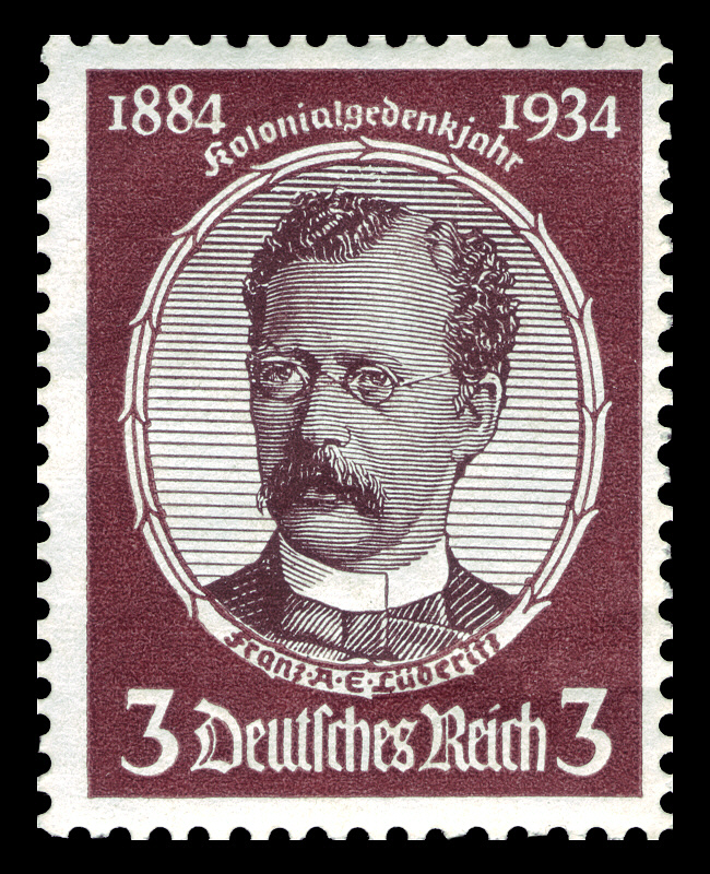 German researcher of colonies Graphics by unbekannt Ausgabepreis: 3 Pfennig First Day of Issue / Erstausgabetag: 30. Juni 1934 Michel-Katalog-Nr: 540 (Deutsches Reich)